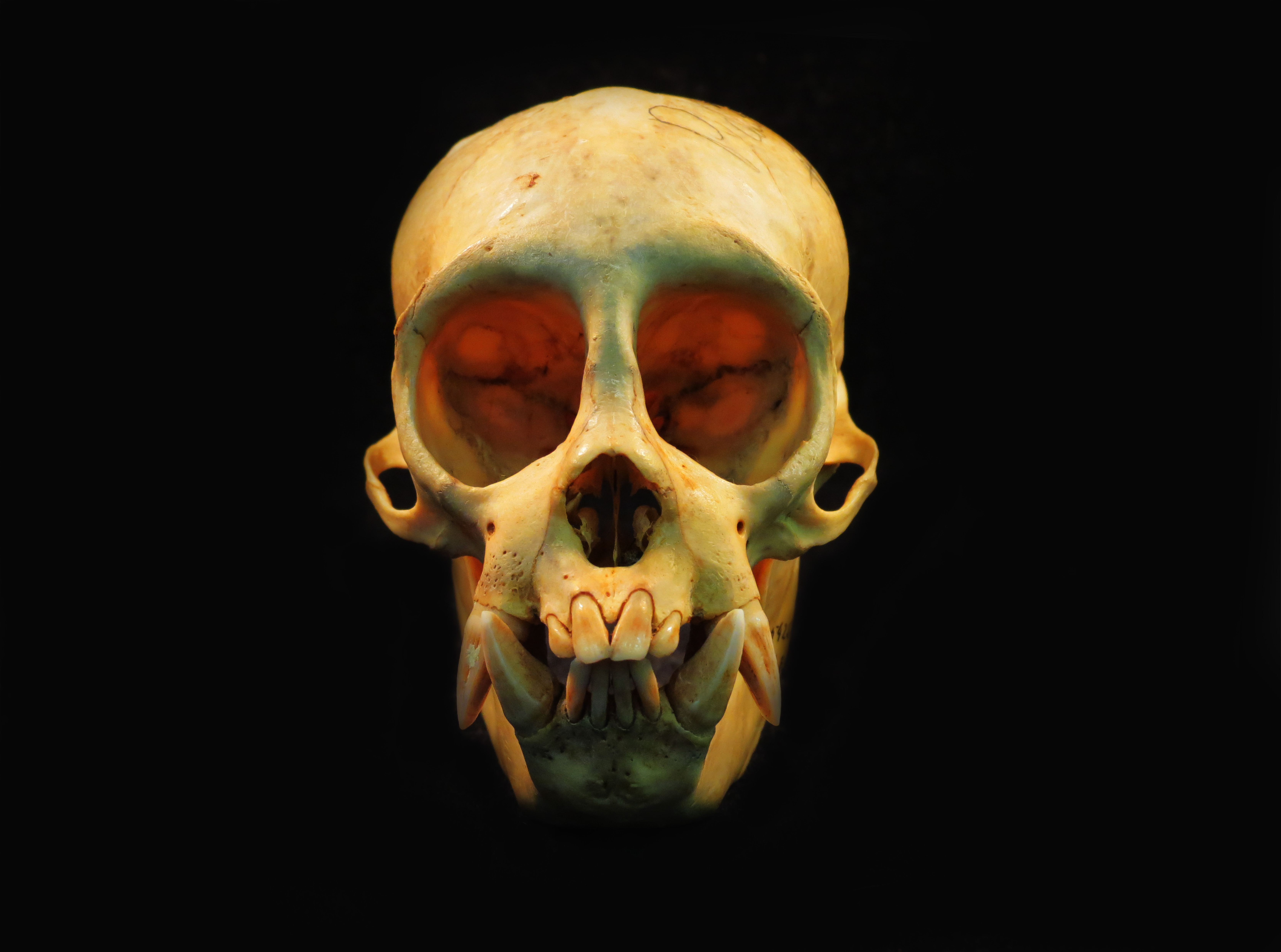 Skull of Chiropotes satanas chiropotes from Urubu river, Amazonas, Brazil. Zoology Museum of University São Paulo (Museu de Zoologia da USP).